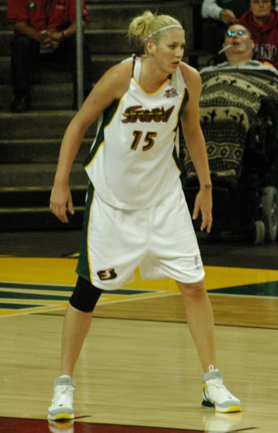 Australian basketball player Lauren Jackson.